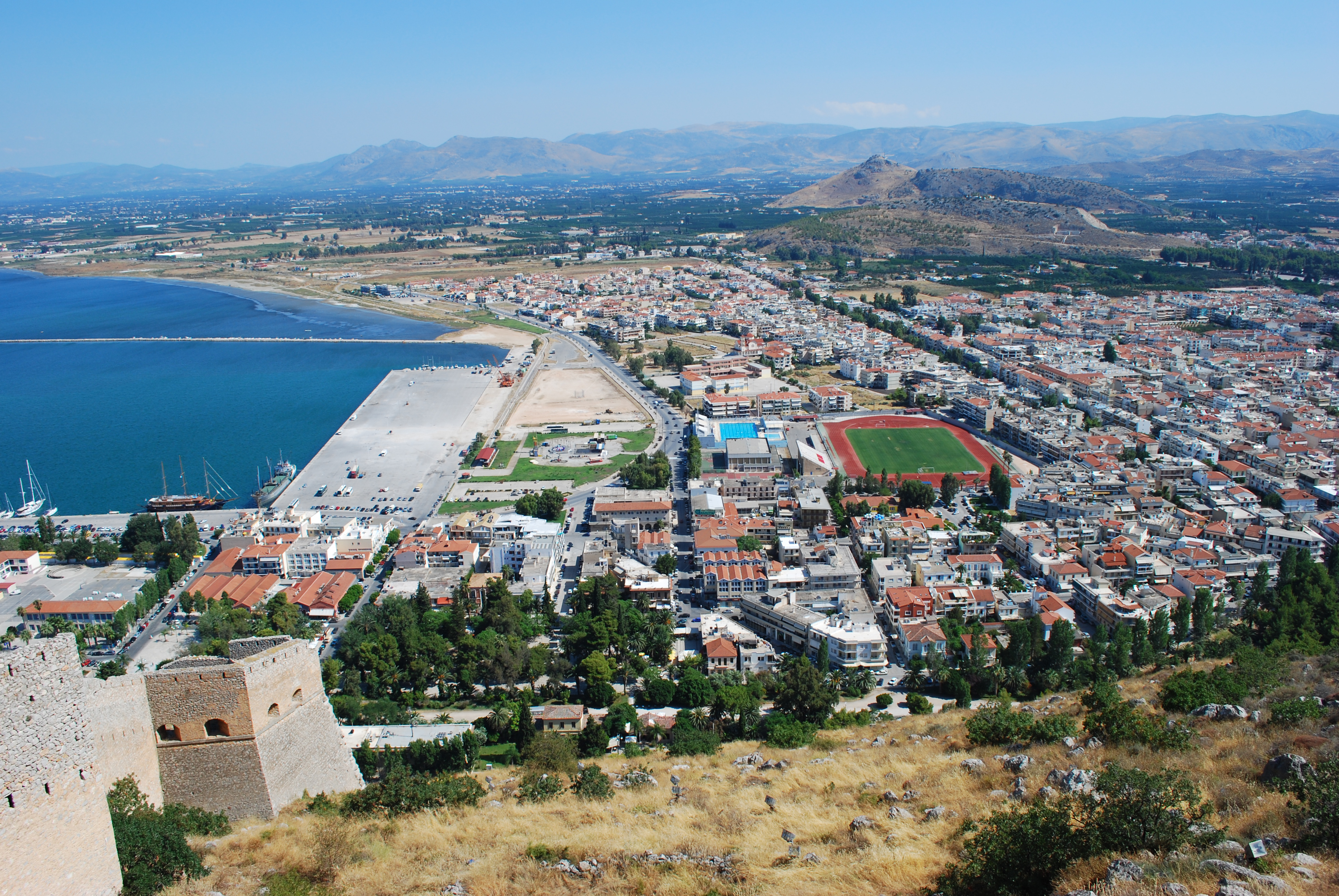 Nafplion, view from Palamidi Castle.